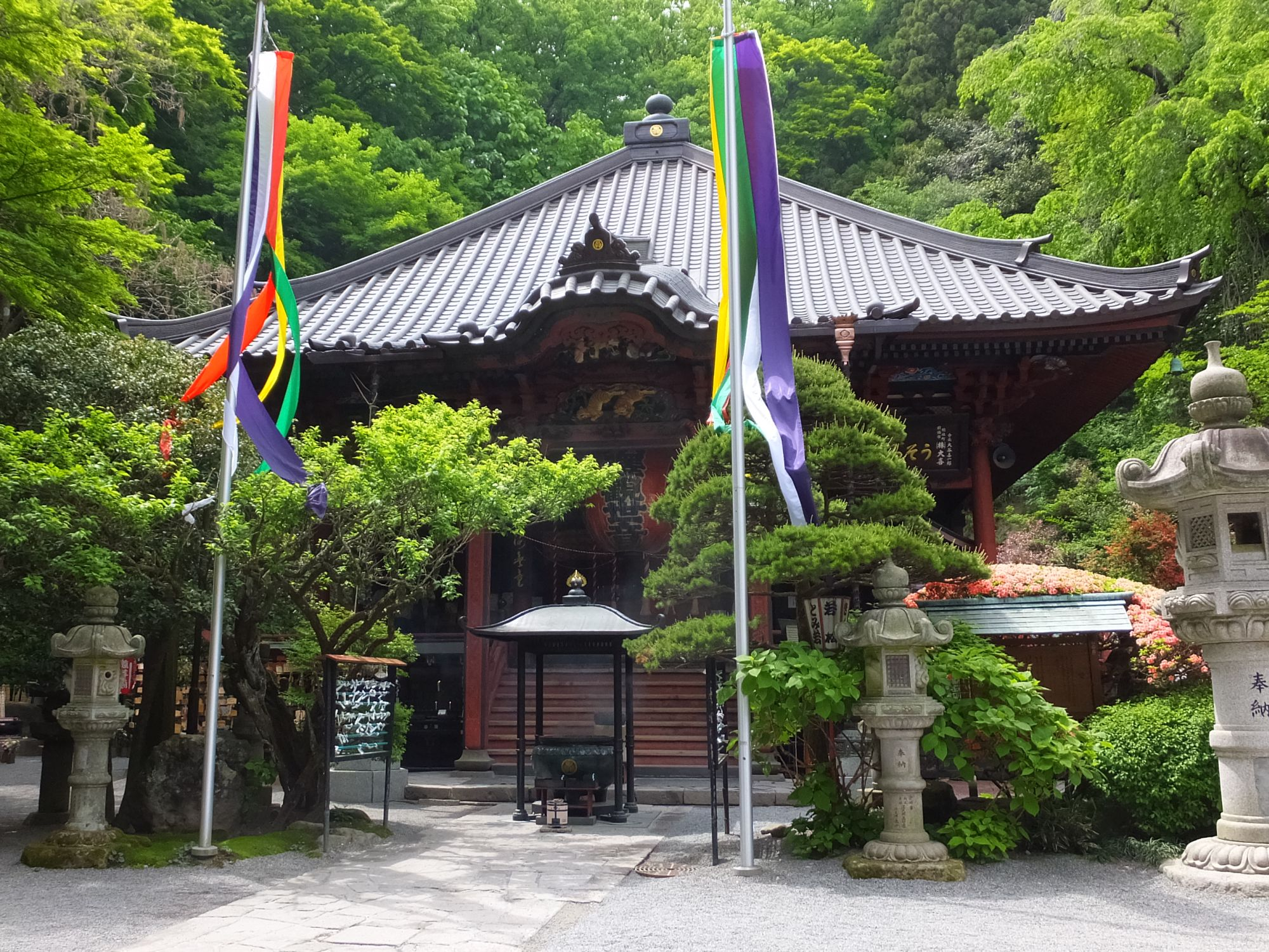 Main hall (Kannon-dō) of Mizusawa-dera temple in Shibukawa, Gunma